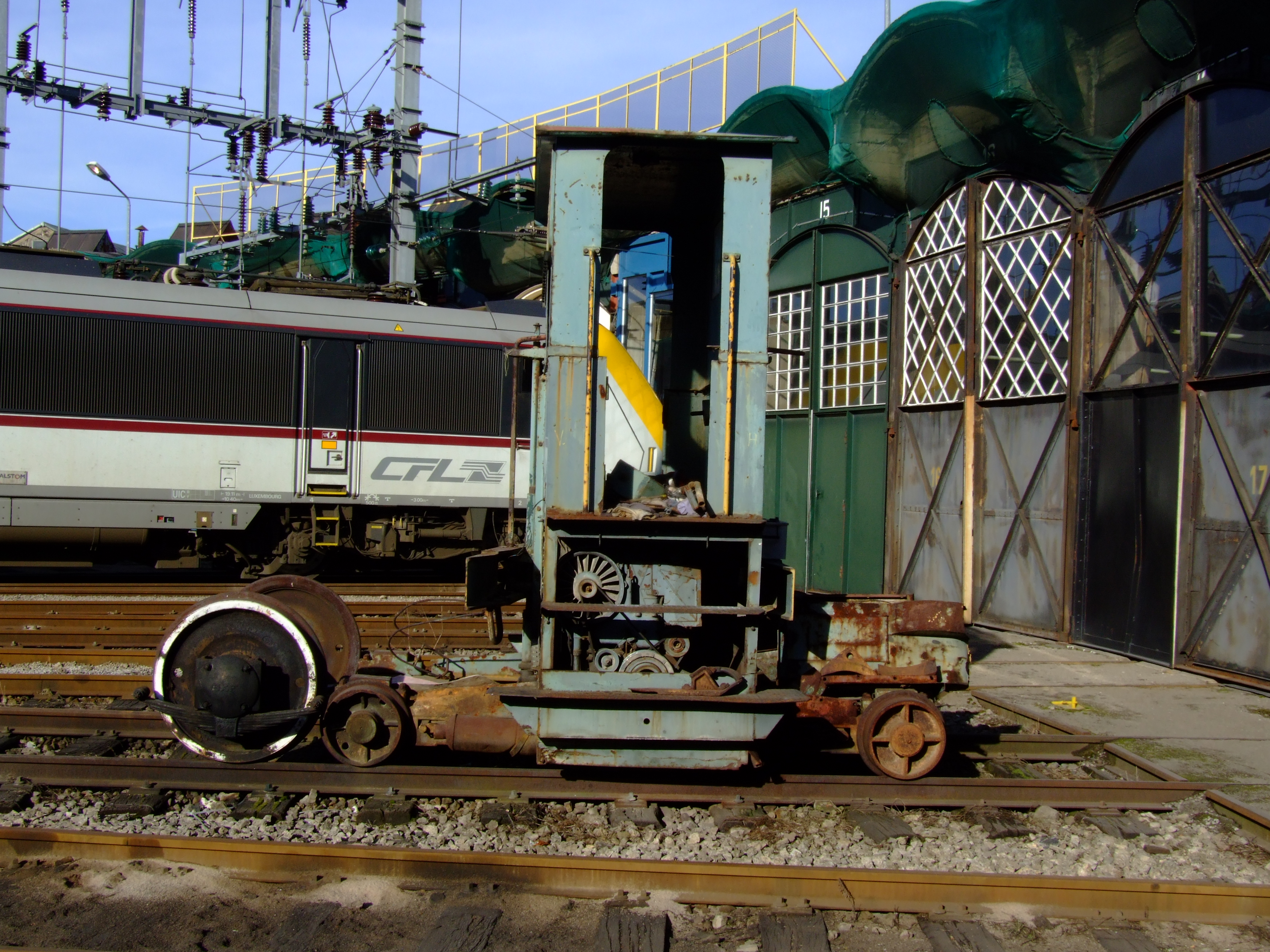 Traintug - shunter at garede traige luxembourg